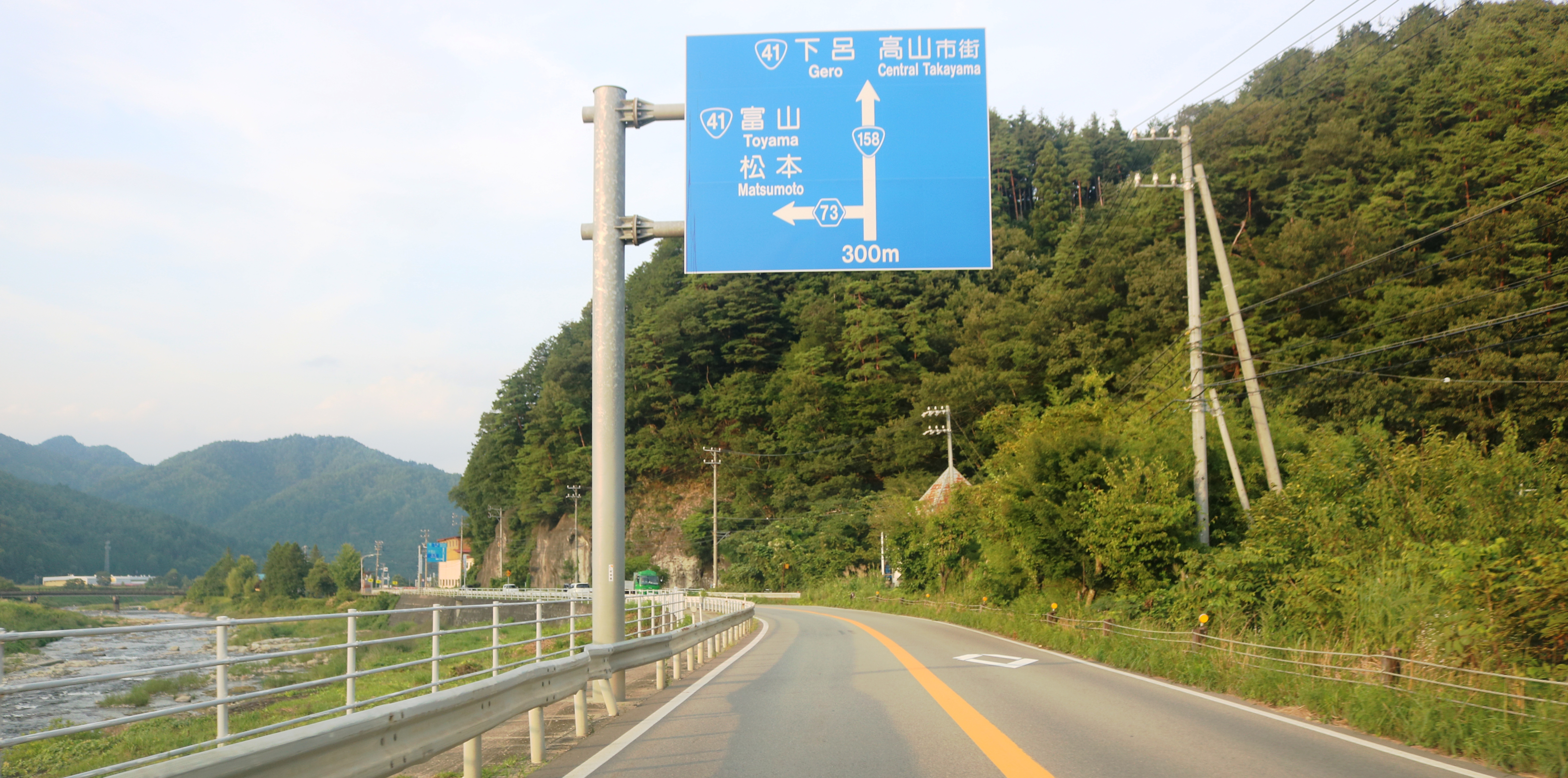 Route 158 and Gifu Prefectural Road Route 73 in Shingumachi, Takayama, Gifu Prefecture, Japan.